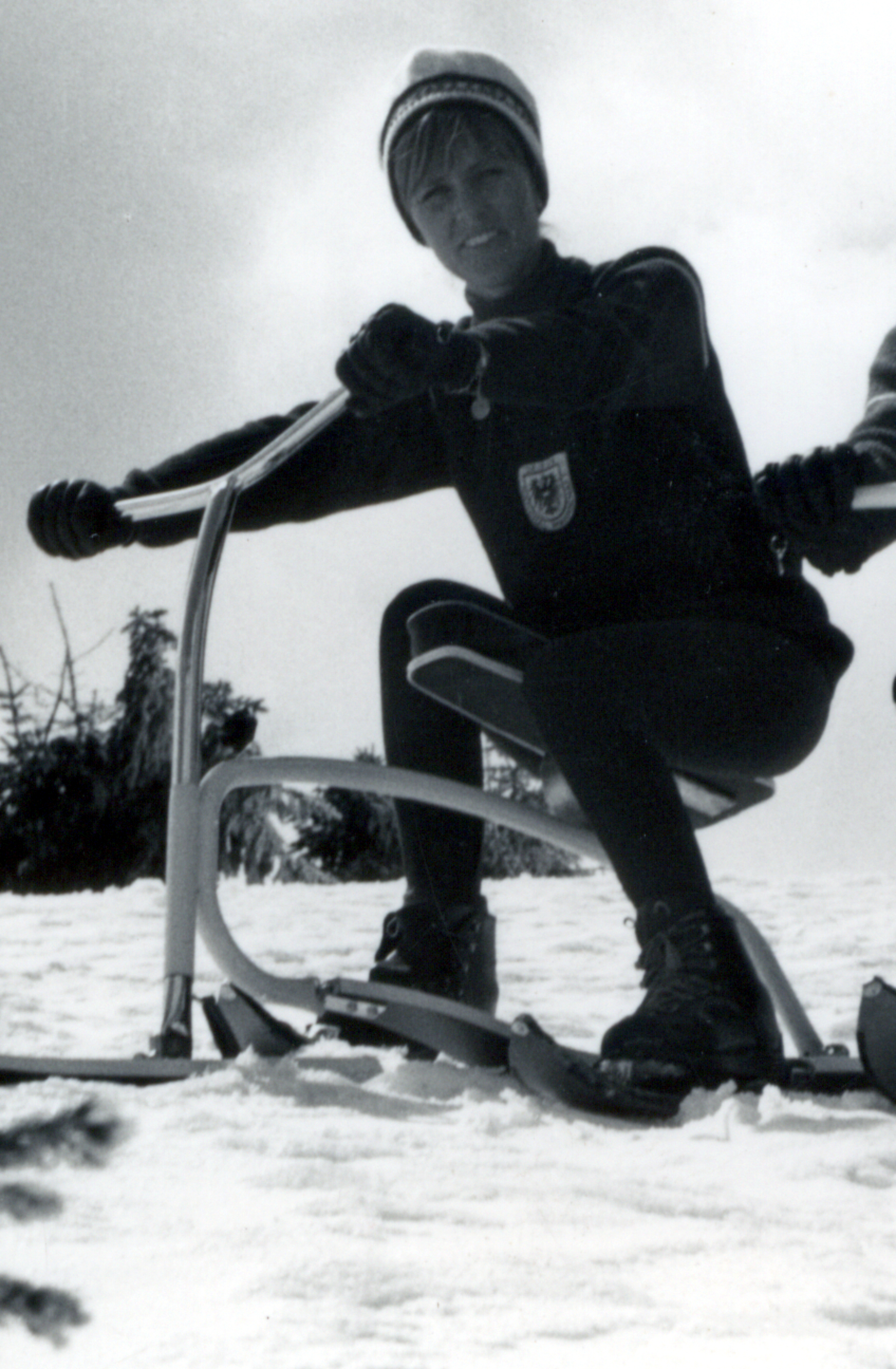 Ranheid Brenter 1972 auf einem Brenter Skibob Commodore (Skibob, Snowbike, Skibike)